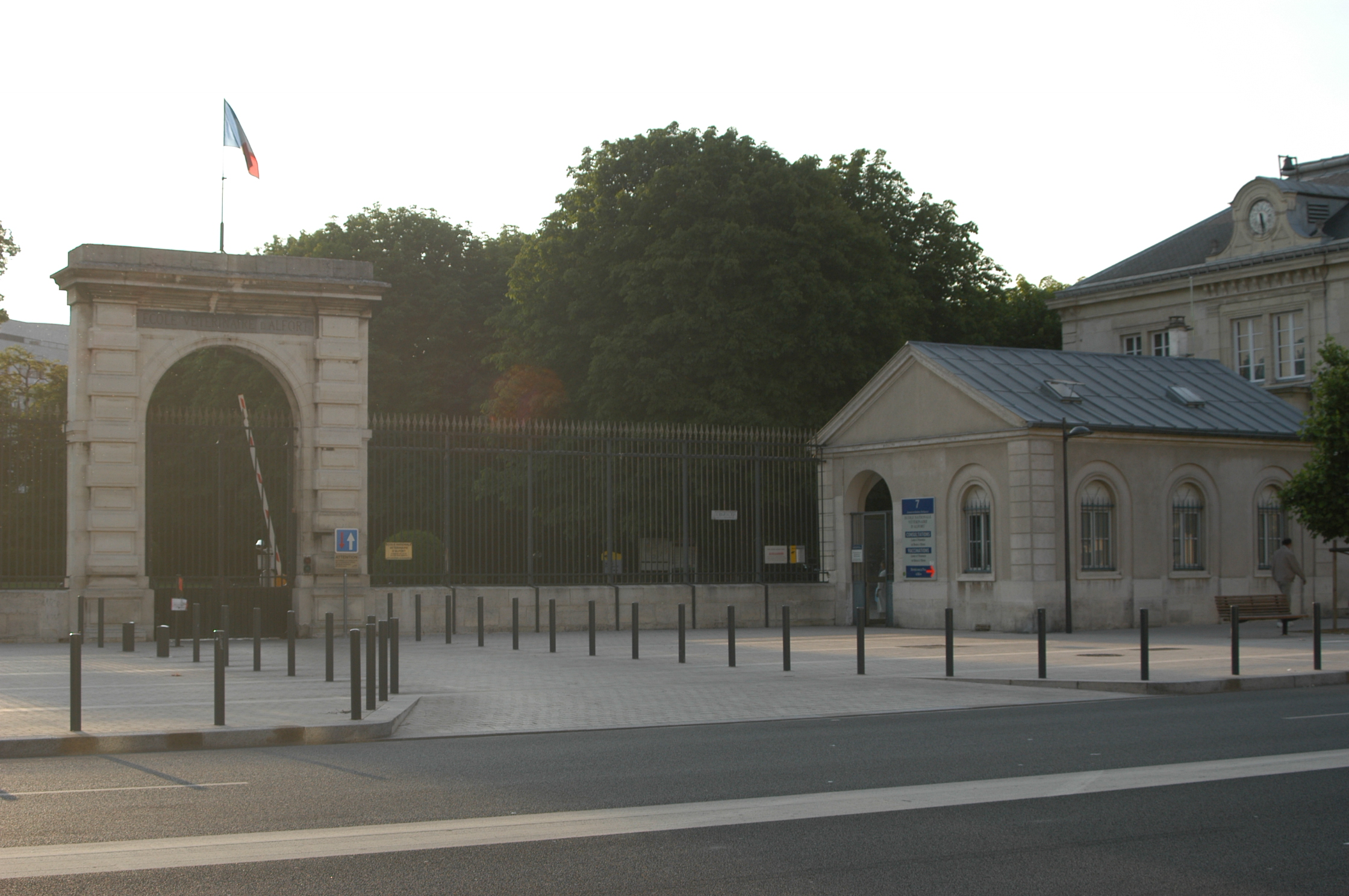 L'entrée principale de l'Ecole nationale vétérinaire d'Alfort